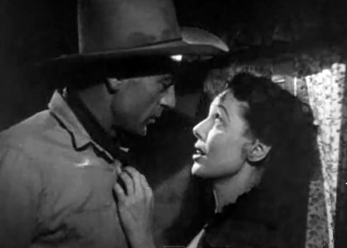 Gary Cooper and Loretta Young in the film trailer for Along Came Jones (1945).